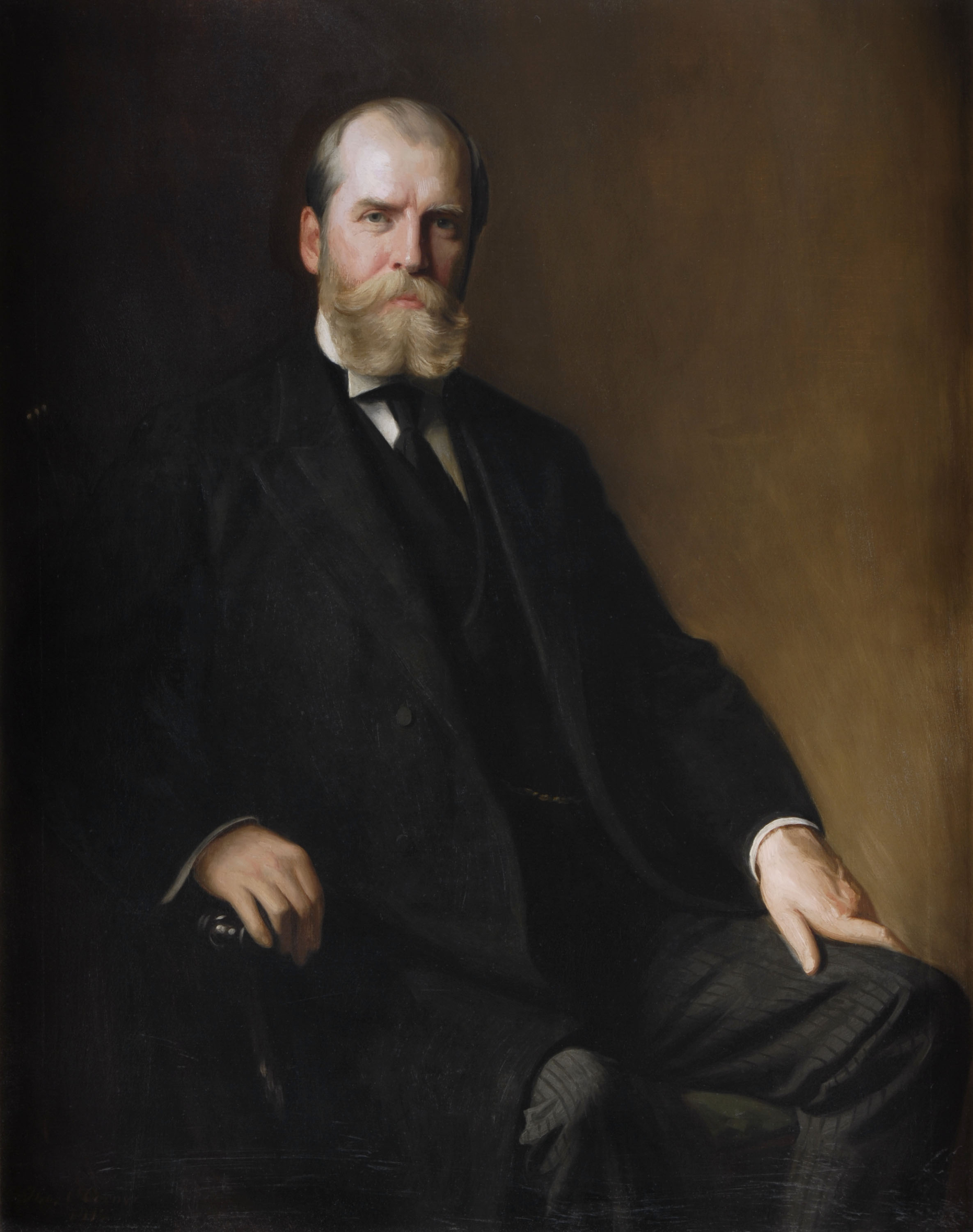 Official Gubernatorial portrait of New York Governor (and United States Chief Justice) Charles Evans Hughes.